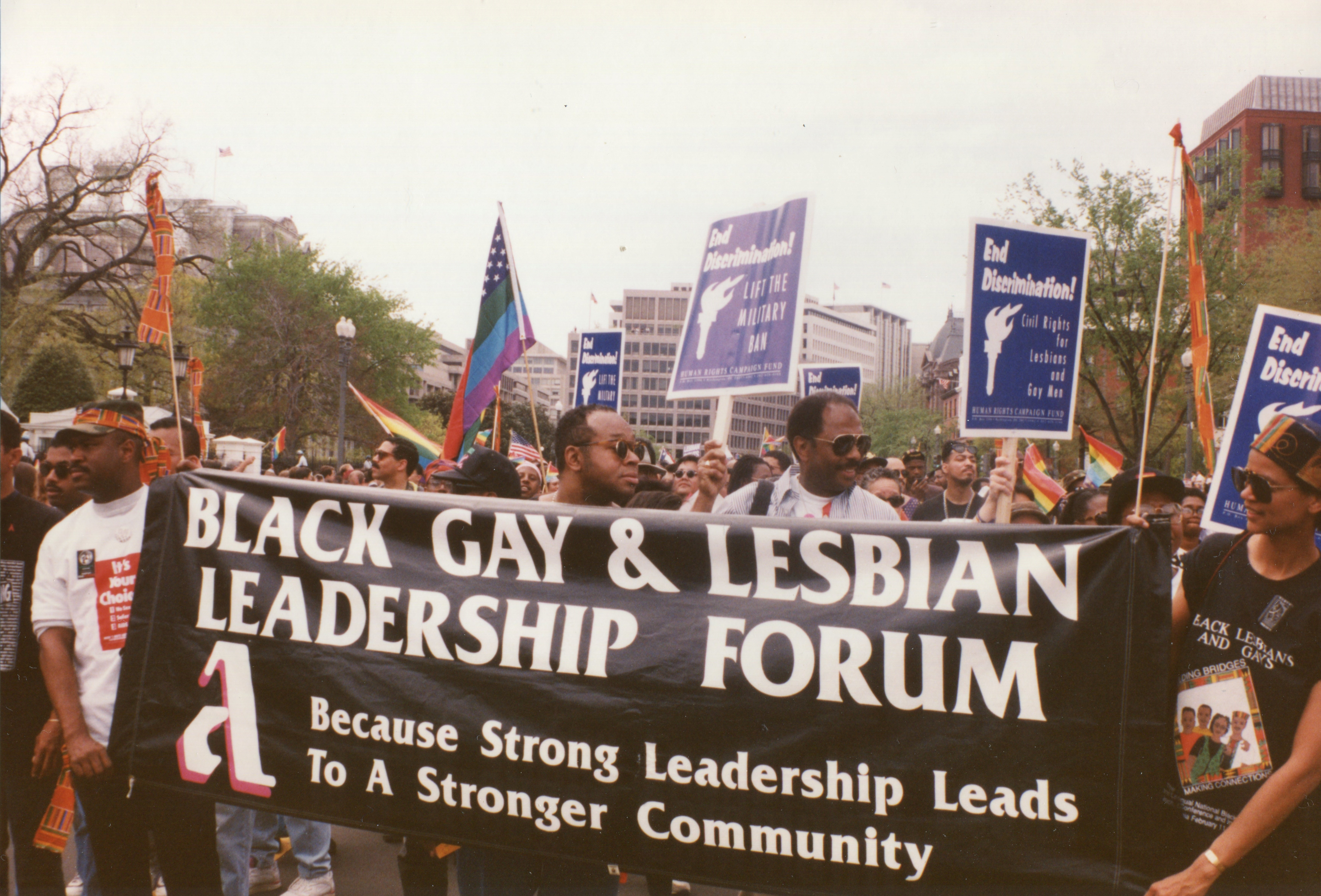 National March on Washington for Lesbian, Gay, and Bi Equal Rights and Liberation in front of the White House at 1600 Pennsylvania Avenue, NW, Washington DC on Sunday afternoon, 25 April 1993 by Elvert Barnes Photography 25 April 1993 LGBT March On Washington at Wikipedia at Elvert Barnes MARRIAGE EQUALITY ongoing project at